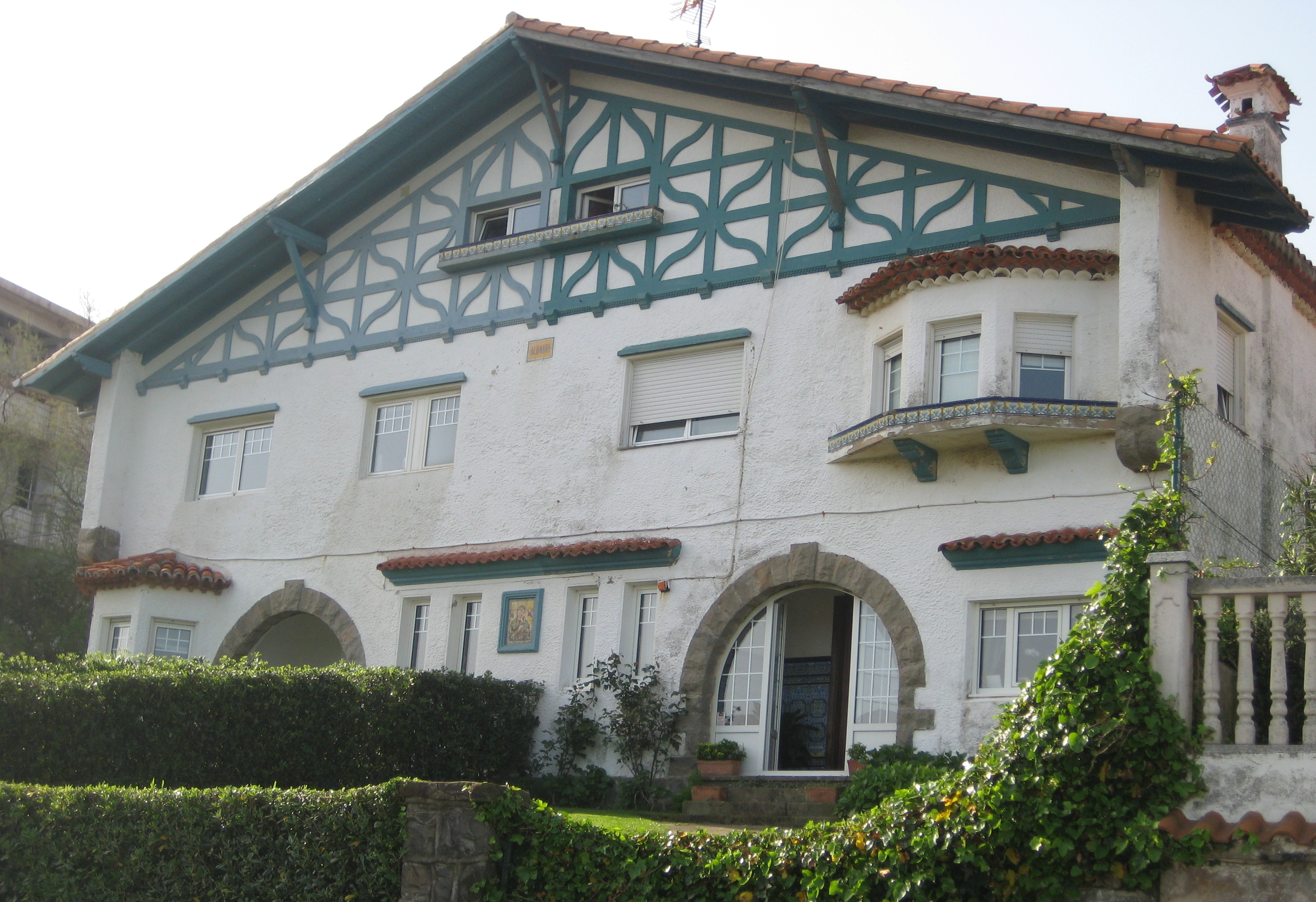 Aldauri house, by Manuel María Smith at Landene Street, Getxo, Biscay.